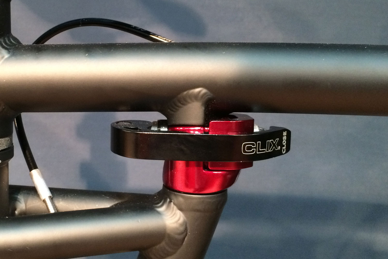 Picture of DirectConnec Latch from Montague